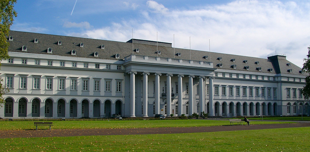 Kurfürstliches Schloss in Koblenz